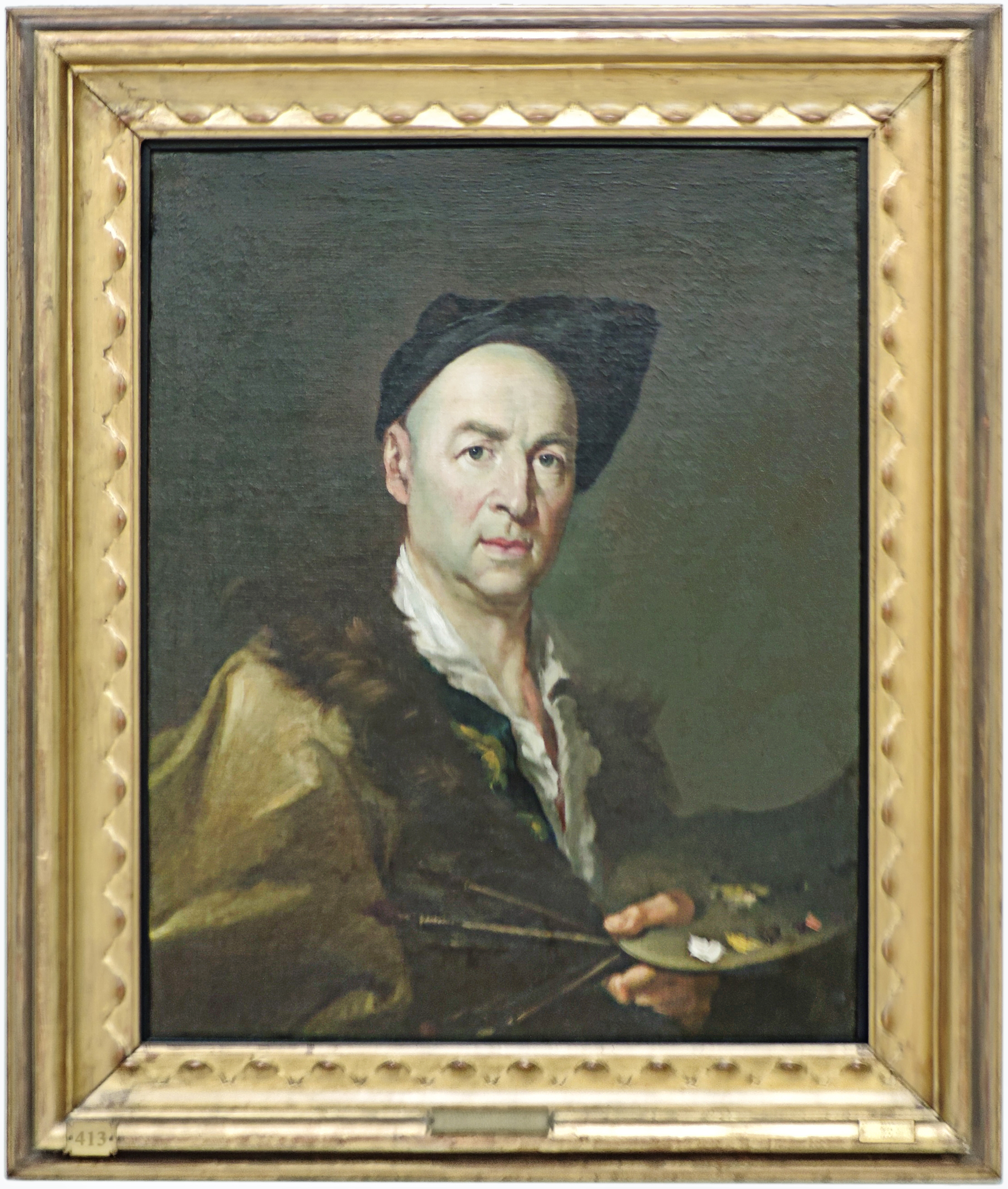 Self-portrait of the Italian painter Giacomo Ceruti (1698 –1767). Exhibit of the Pinacoteca di Brera in Milan, Italy.